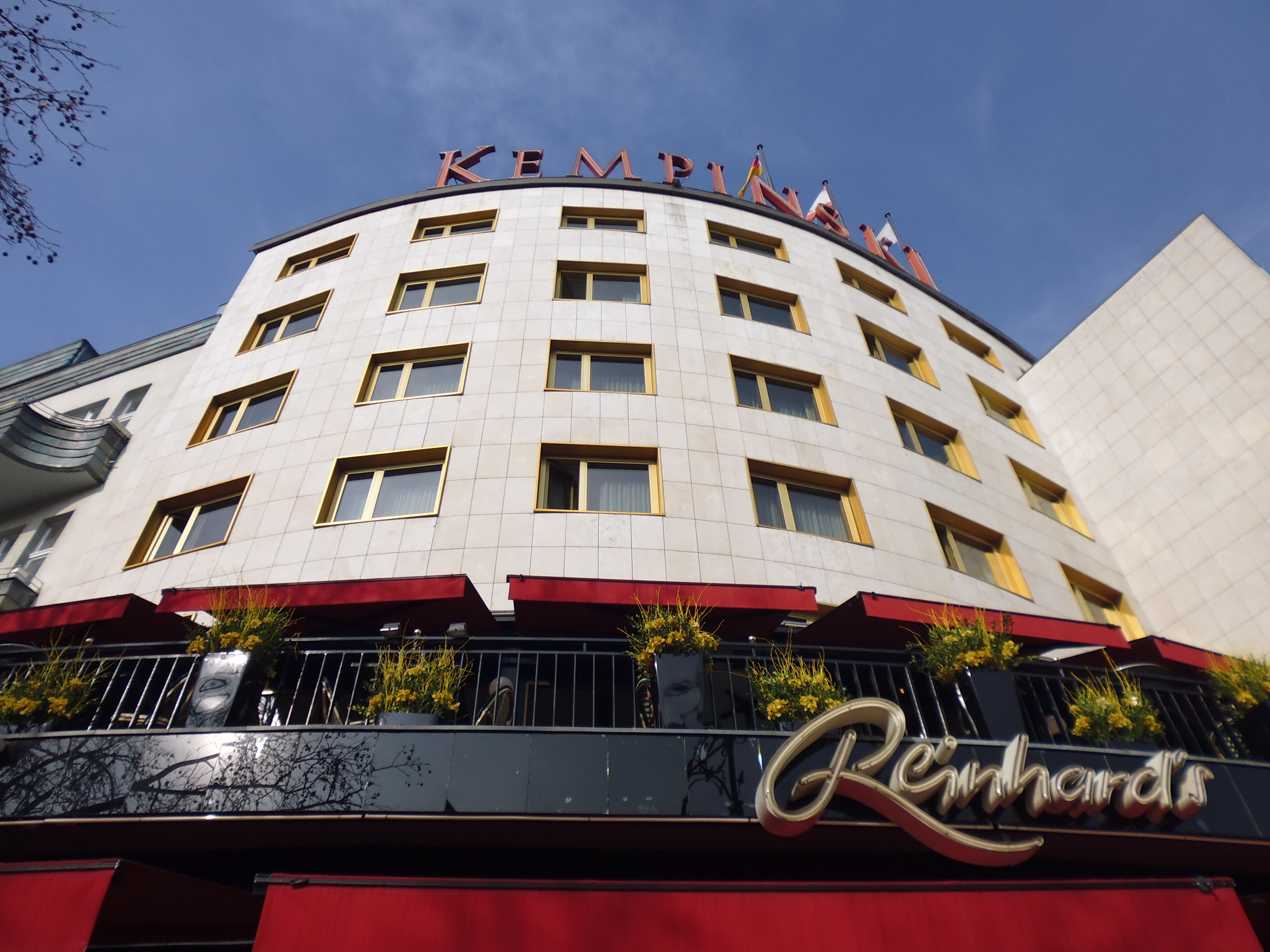 Bristol Kempinski Berlin